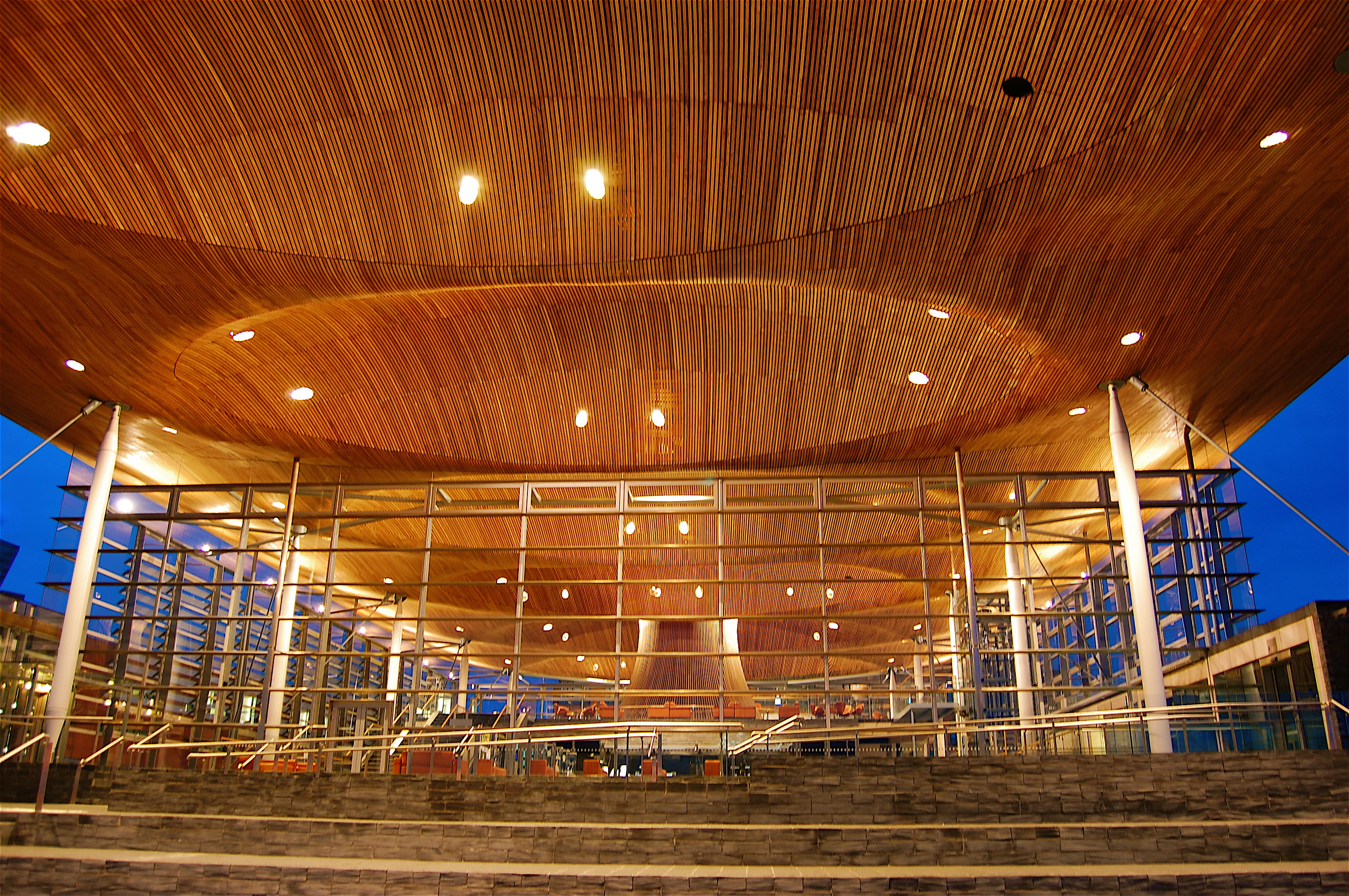 Did they assemble a large Ikea flat-pack themselves ? ! ? Fabulous architecture down in the Bay area redevelopment.Welsh National Assembley